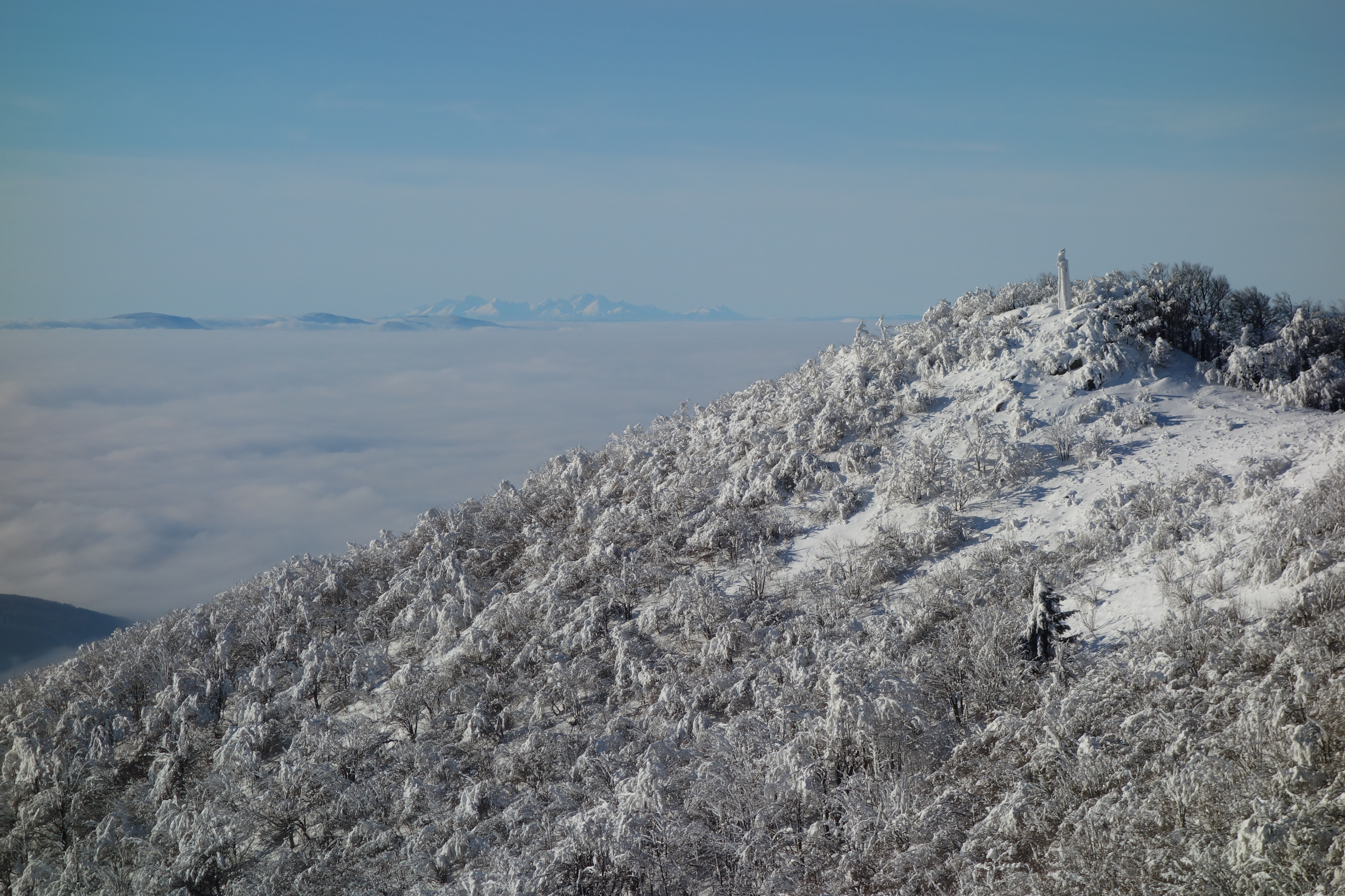 Vihorlat in the winter, view from the east peak to the west peak, in the background High Tatras This is a photography of Natura 2000 protected area with ID SKUEV0025